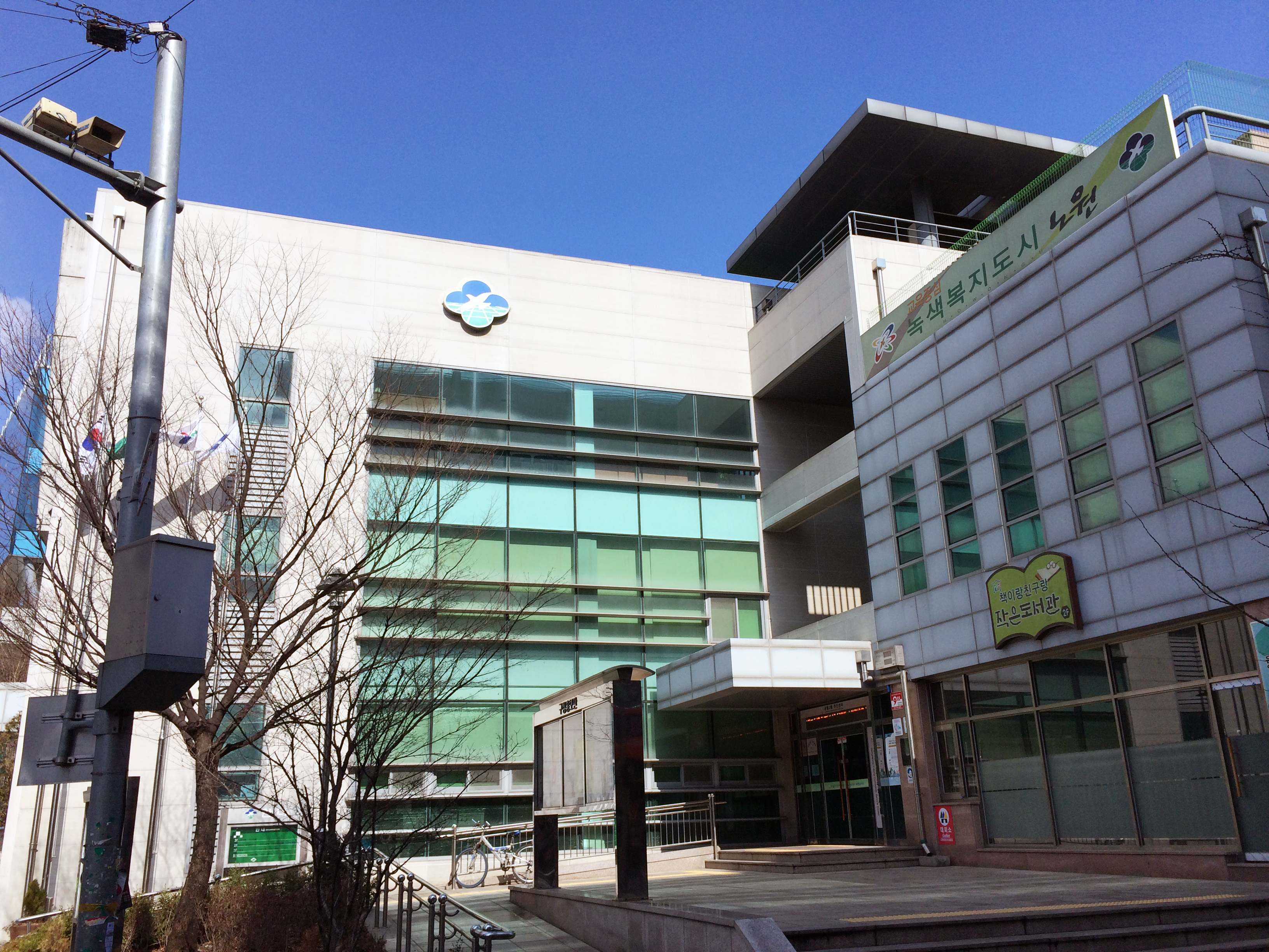 Gongneung 2-dong Comunity Service Center (Nowon-gu)